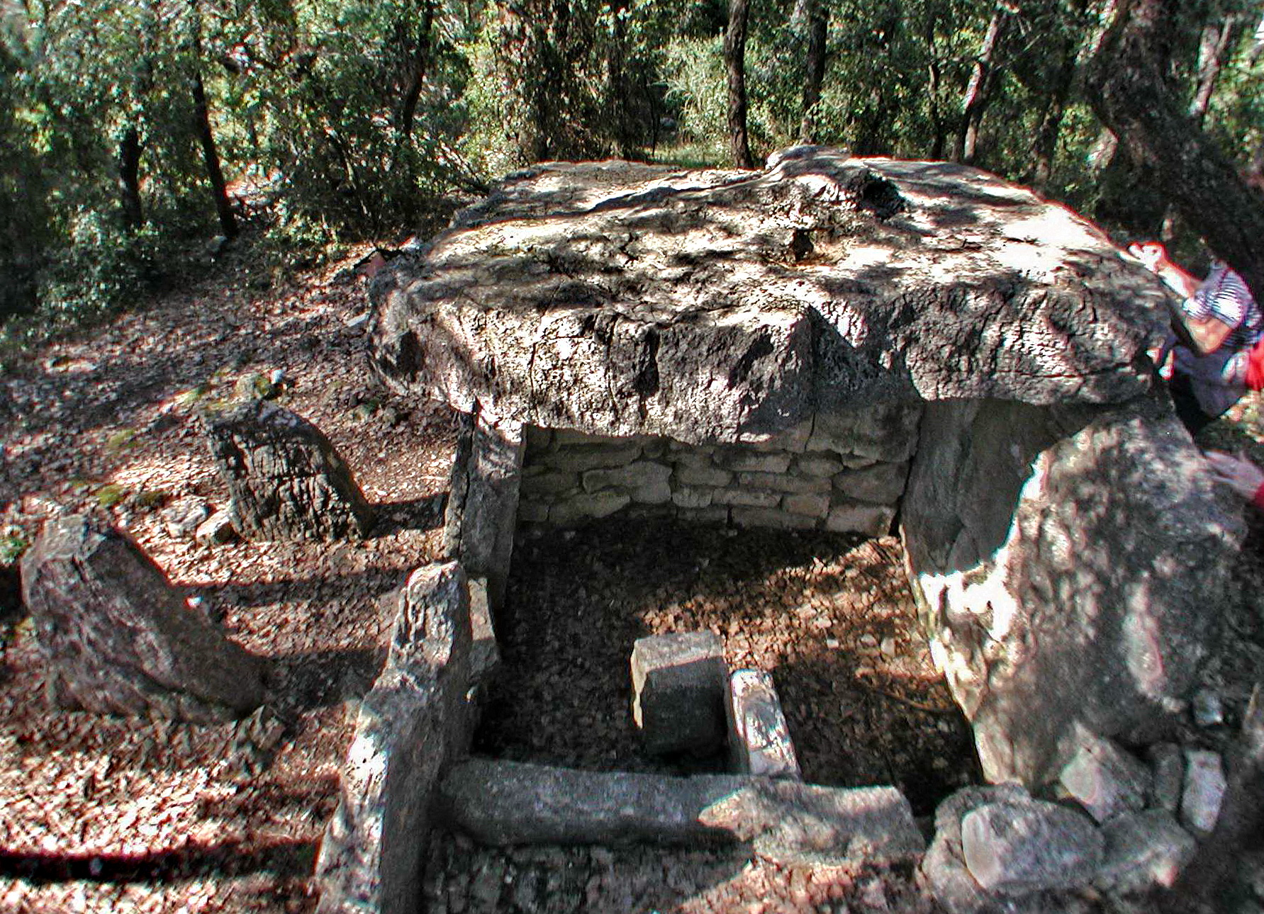 Cabasse (Var) Gastée's dolmen